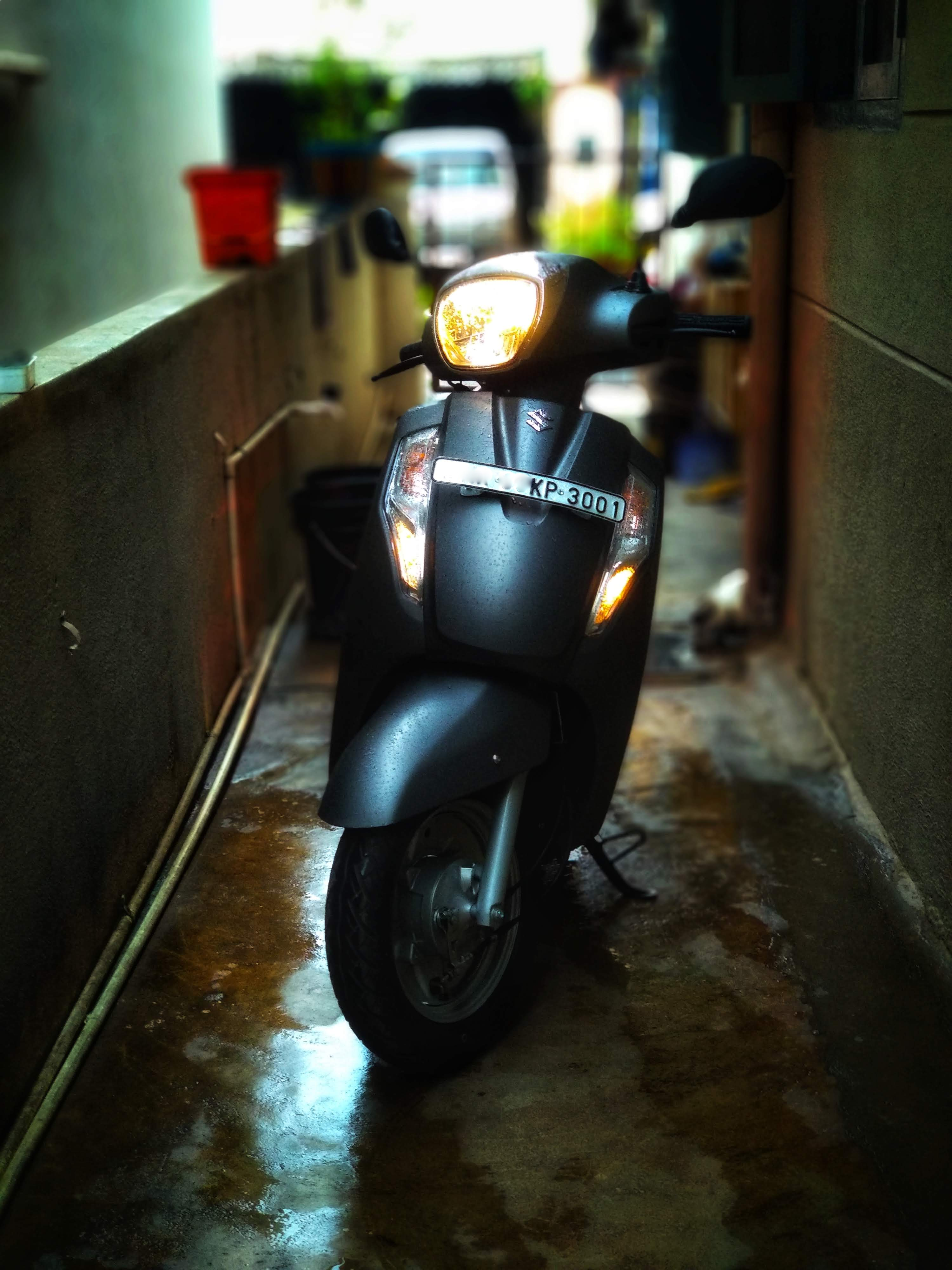 2018 Model Best in Class